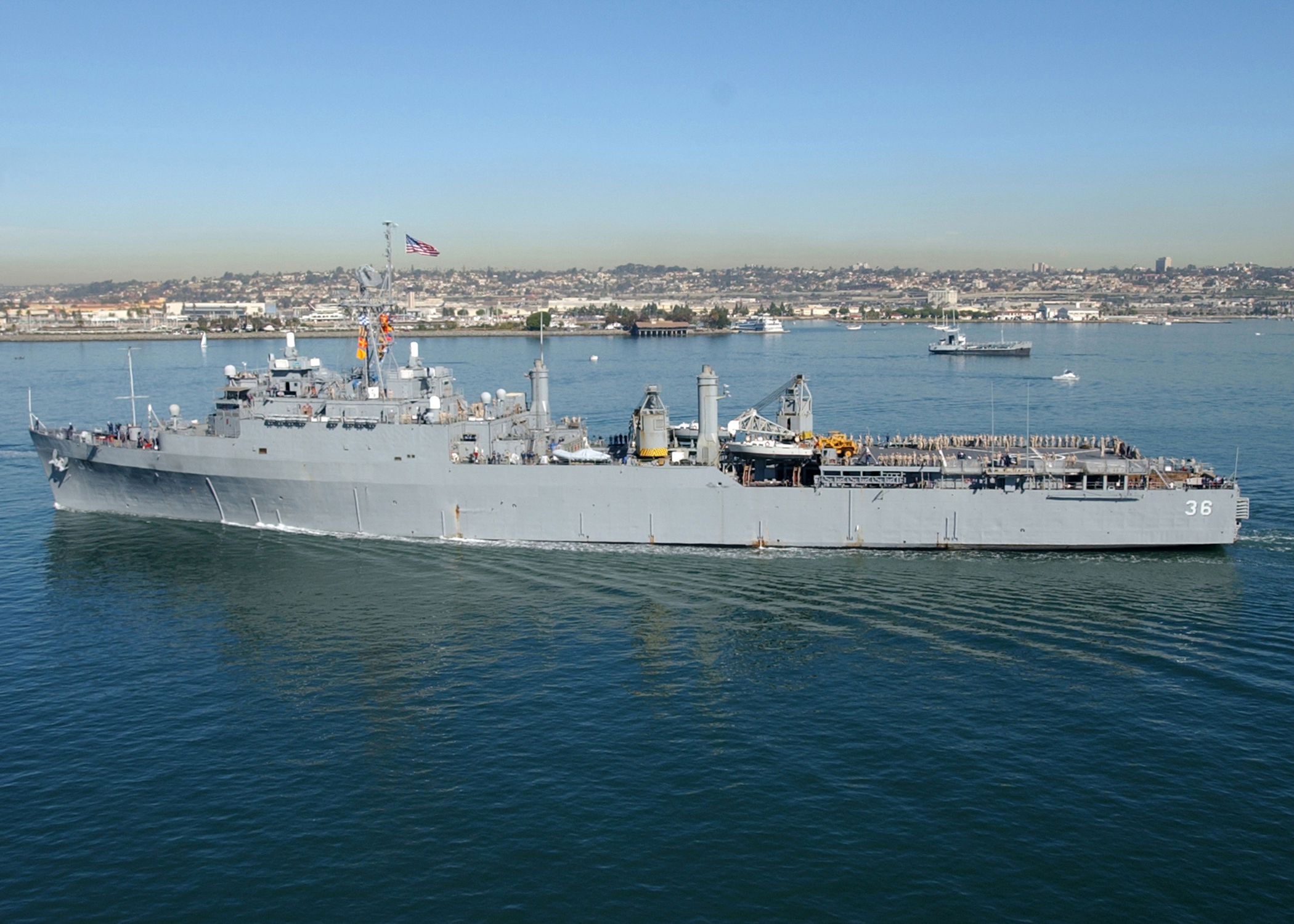 San Diego, Calif. (Jan. 17, 2003) -- USS Anchorage (LSD 36) departs San Diego Bay as she heads to sea for an unscheduled deployment in support of U.S. national interests. The amphibious dock landing ship is part 7-ship Amphibious Task Force West (ATF-W). U.S. Navy Photo by Photographer’s Mate 3rd Class Gregory Badger. (RELEASED)